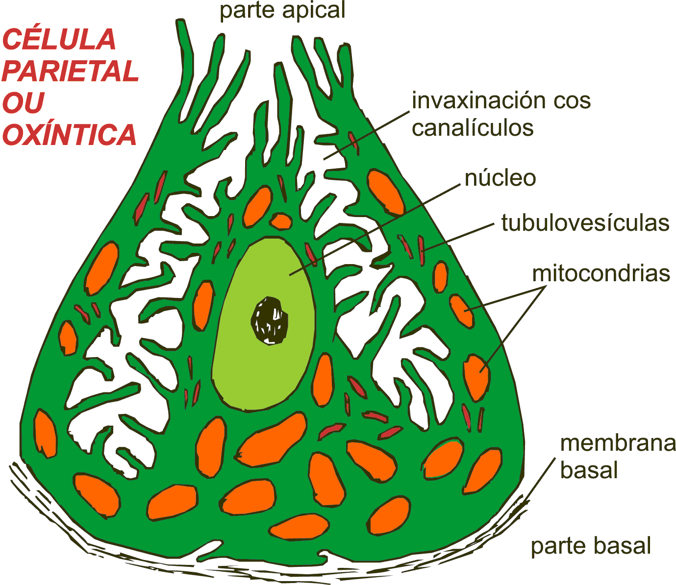 Diagram of a parietal cell or oxyntic cell